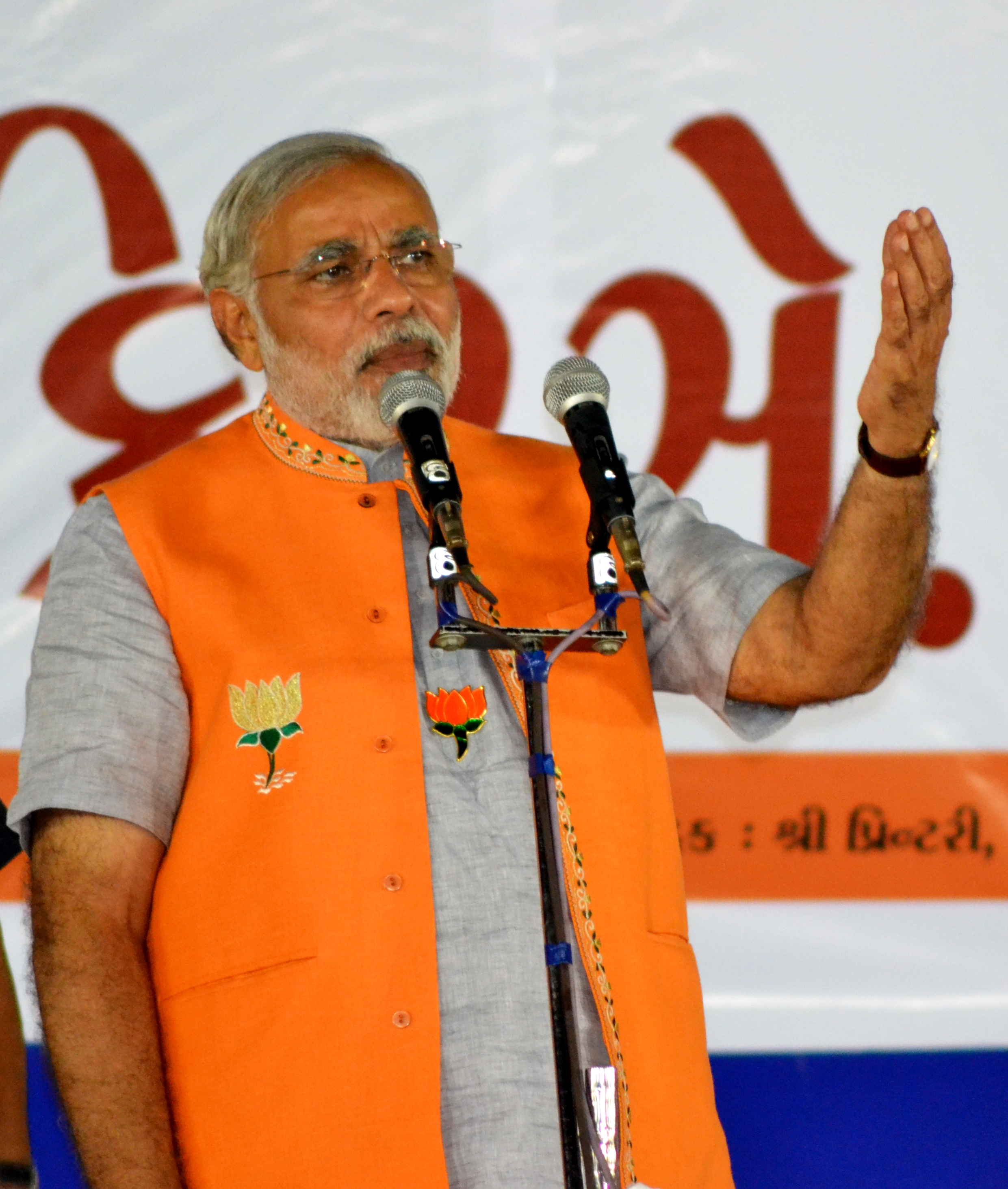 The current chief minister of Gujarat Narendra Modi in Jamnagar during an election campaign.